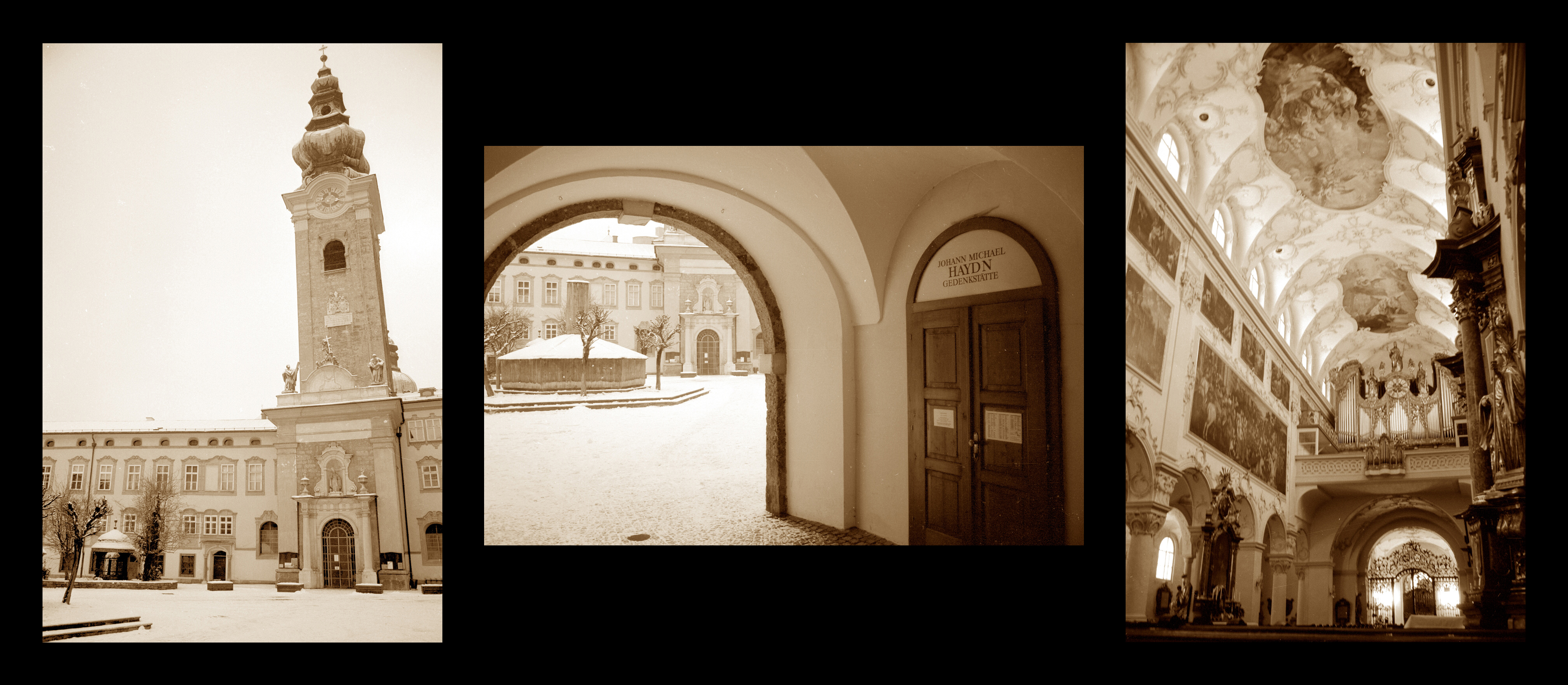 St. Peter's Church and its Michael Haydn Library, Salzburg, Austria. Other images by this contributor